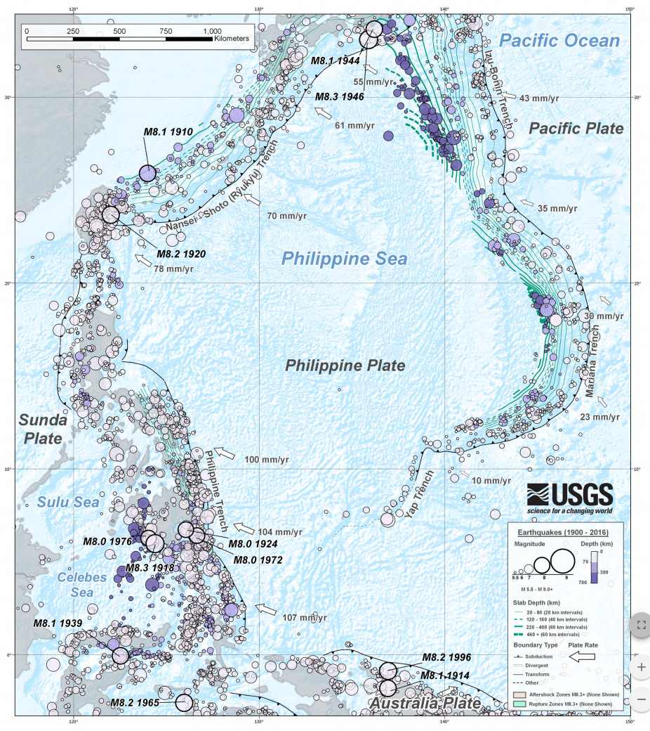 Earthquakes M5.5+ (1900-2016) philippine sea Circle sizes indicate Magnitude, and colors indicate their depth.